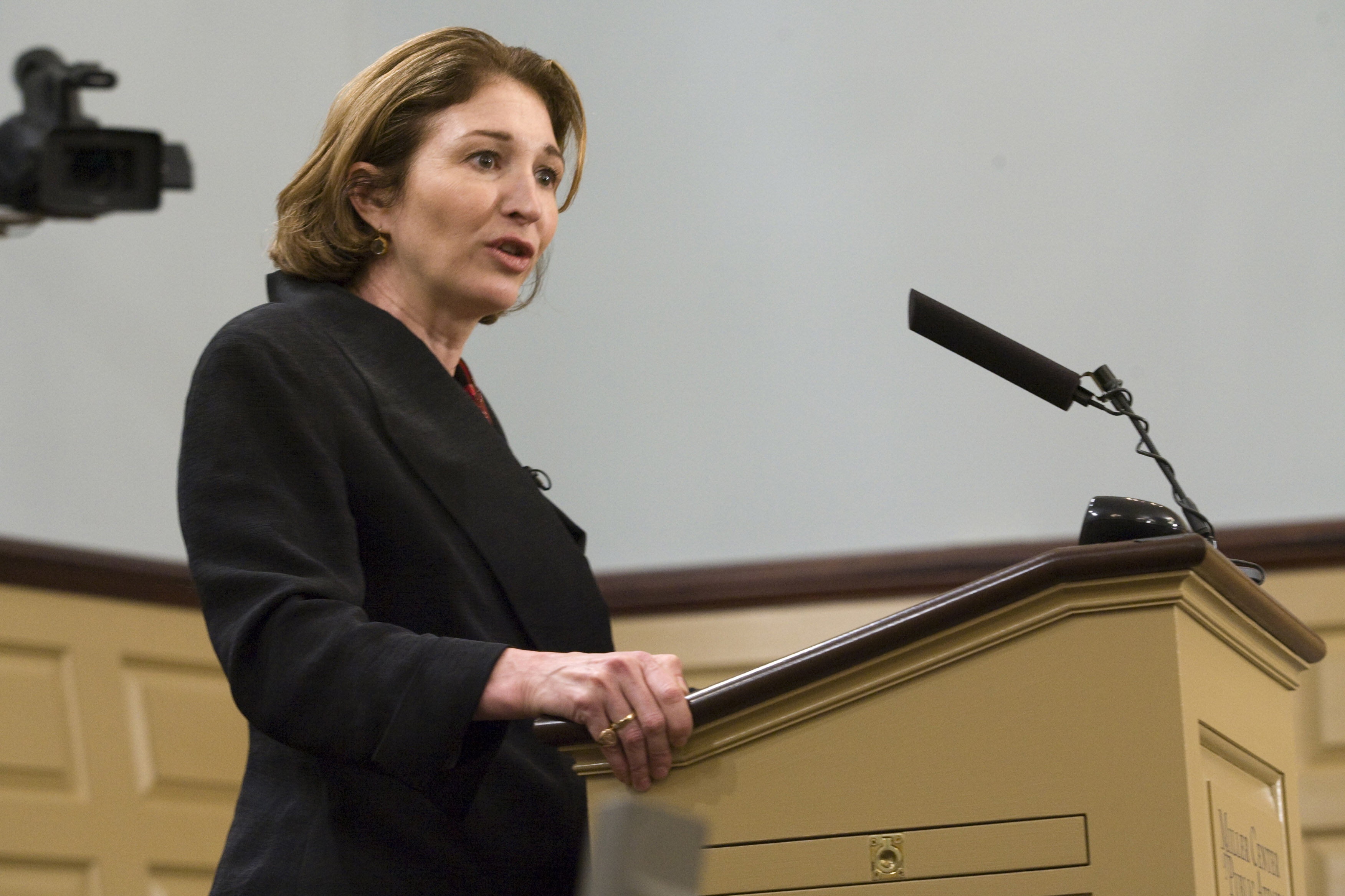 Anne-Marie Slaughter speaks at the Miller Center, April 25, 2011.